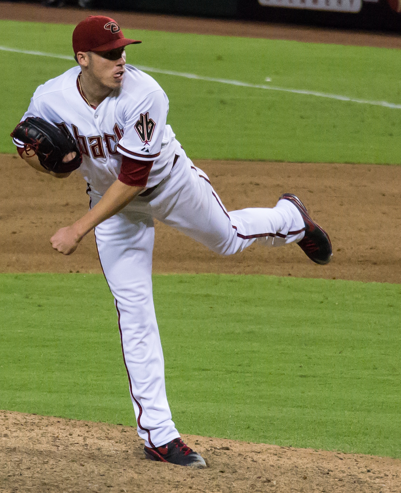 Dbacks P Patrick Corbin